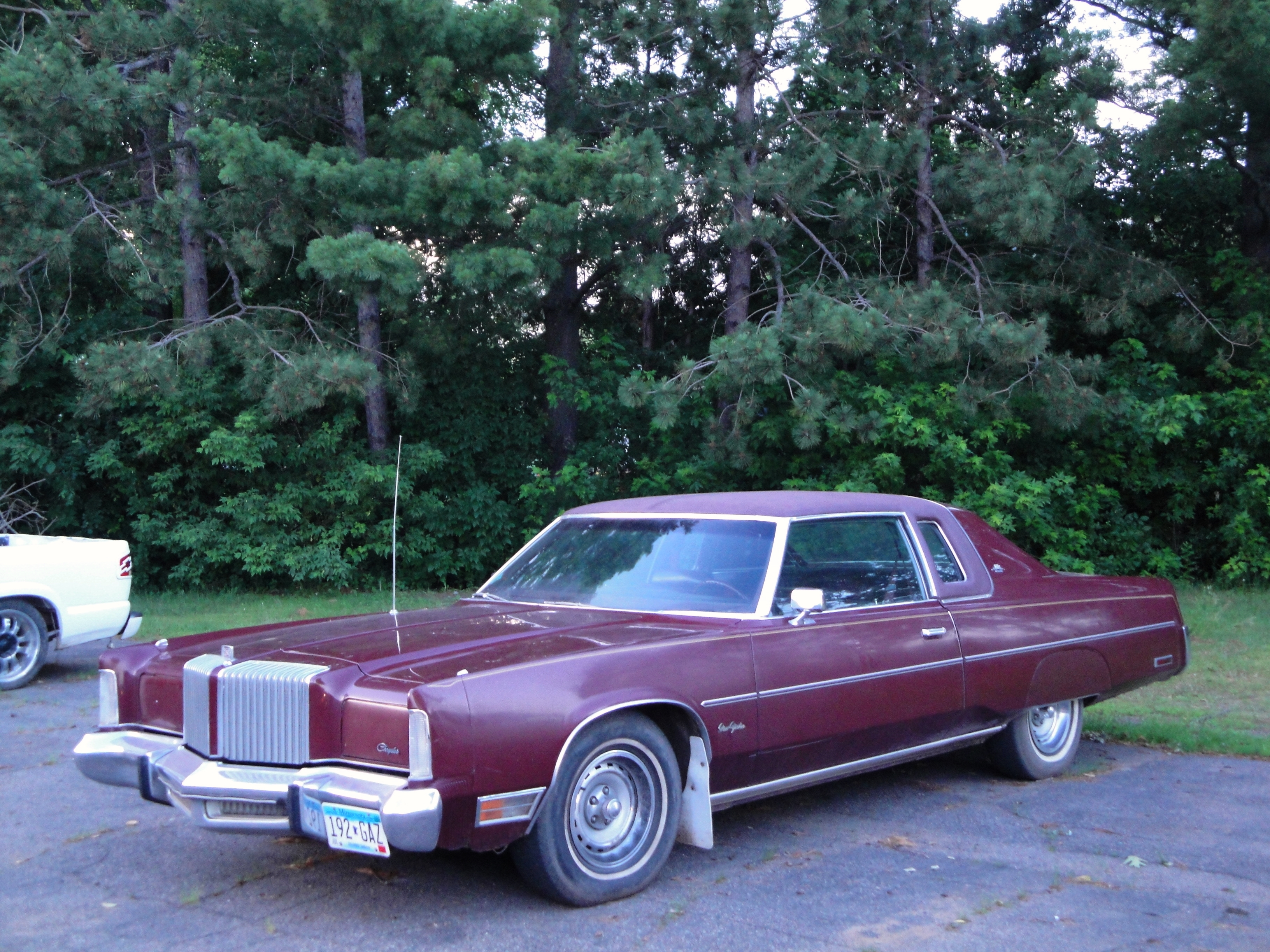 1976 Chrysler New Yorker Brougham